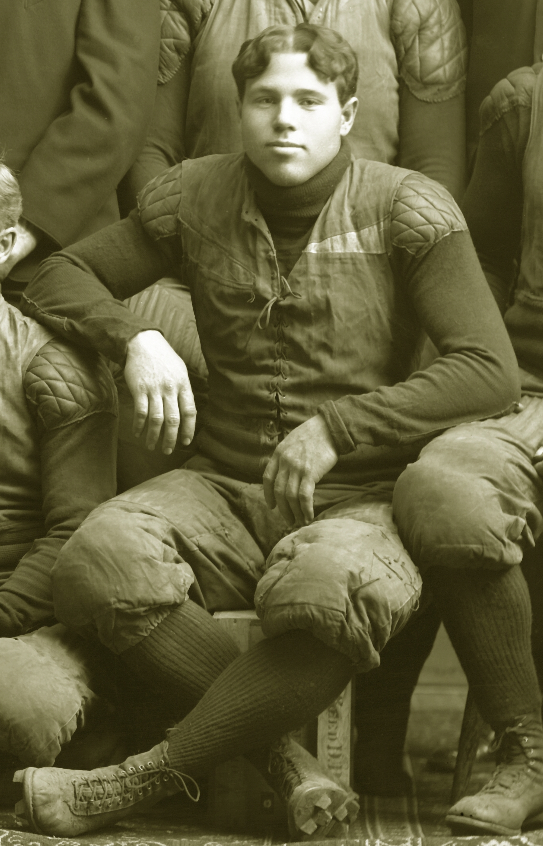 Willie Heston cropped from 1903 Michigan Wolverines football team photograph